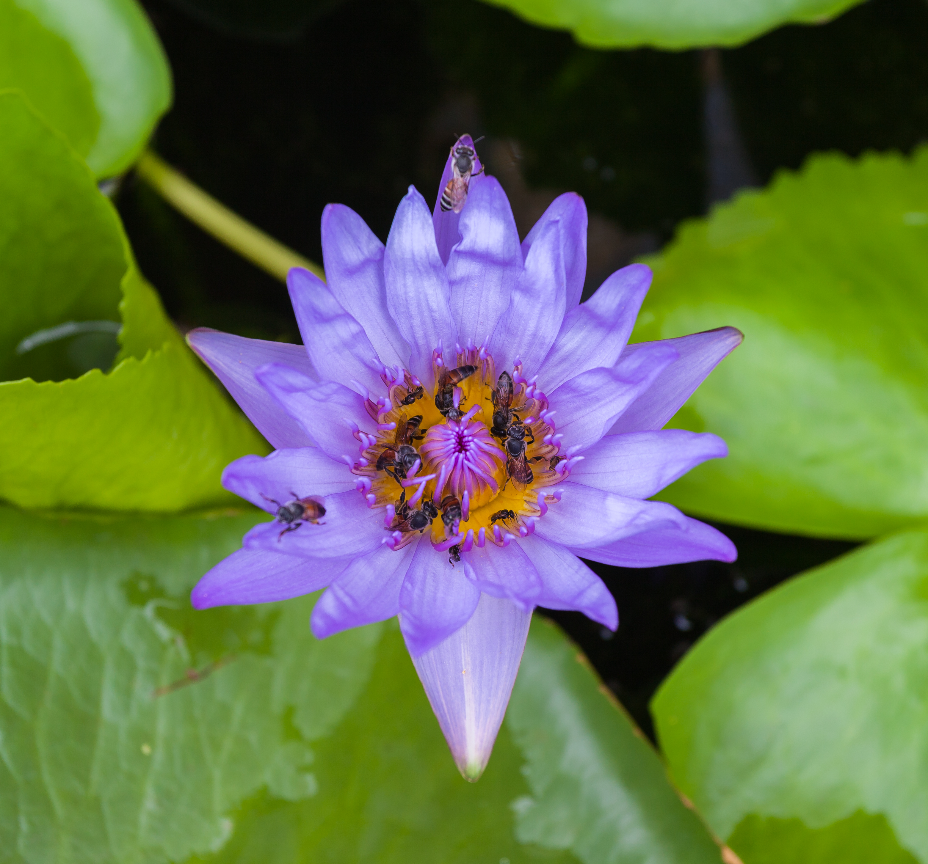 Bees (Tetragonula laeviceps) in an unidentified water lily, Grand Palace, Bangkok, Thailand